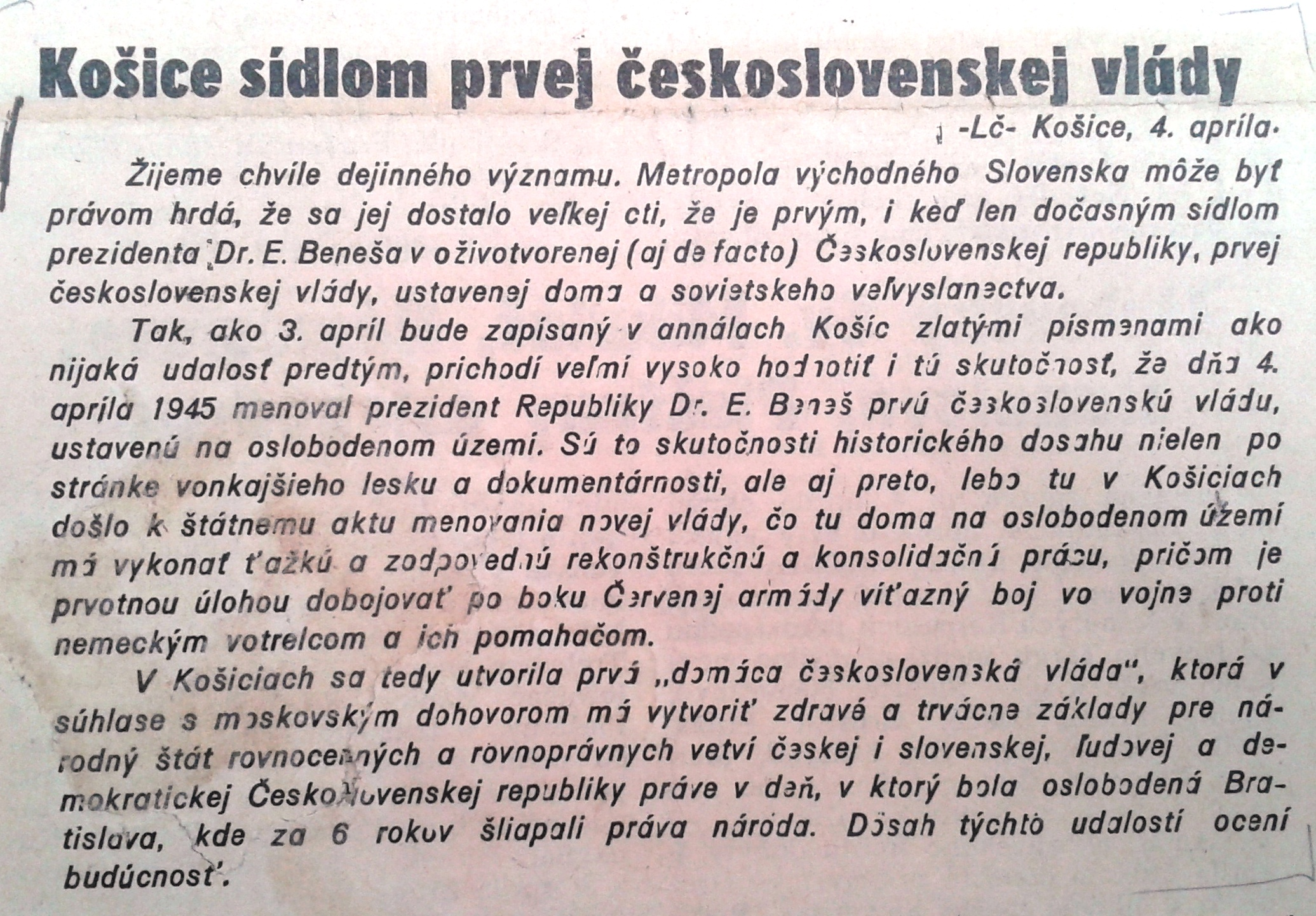 Newspaper article in Demokrat, 5 April 1945, Volume I, Issue 13, page 1.